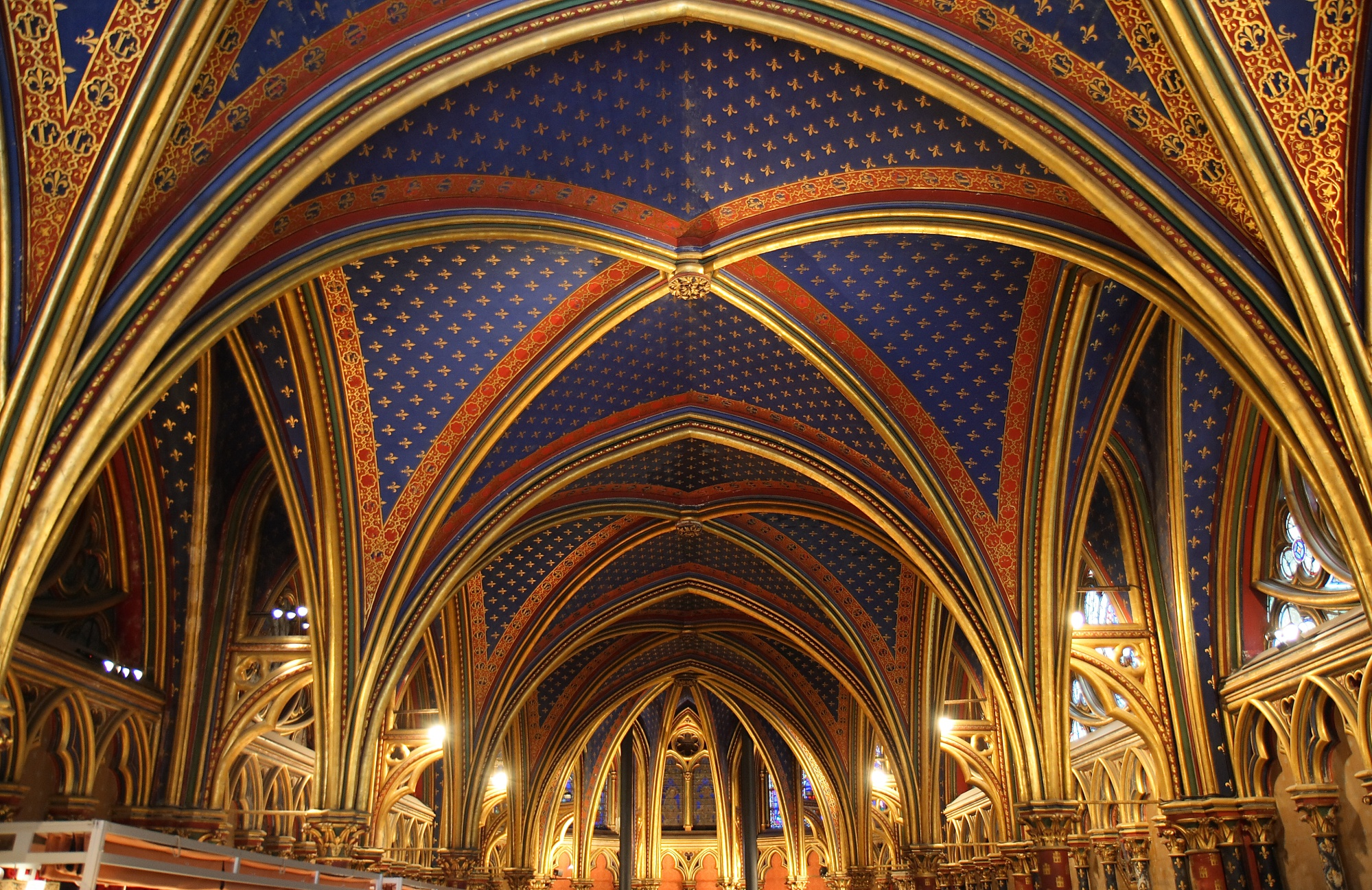 Ceiling of the lower part of the Holy Chapel in Paris.